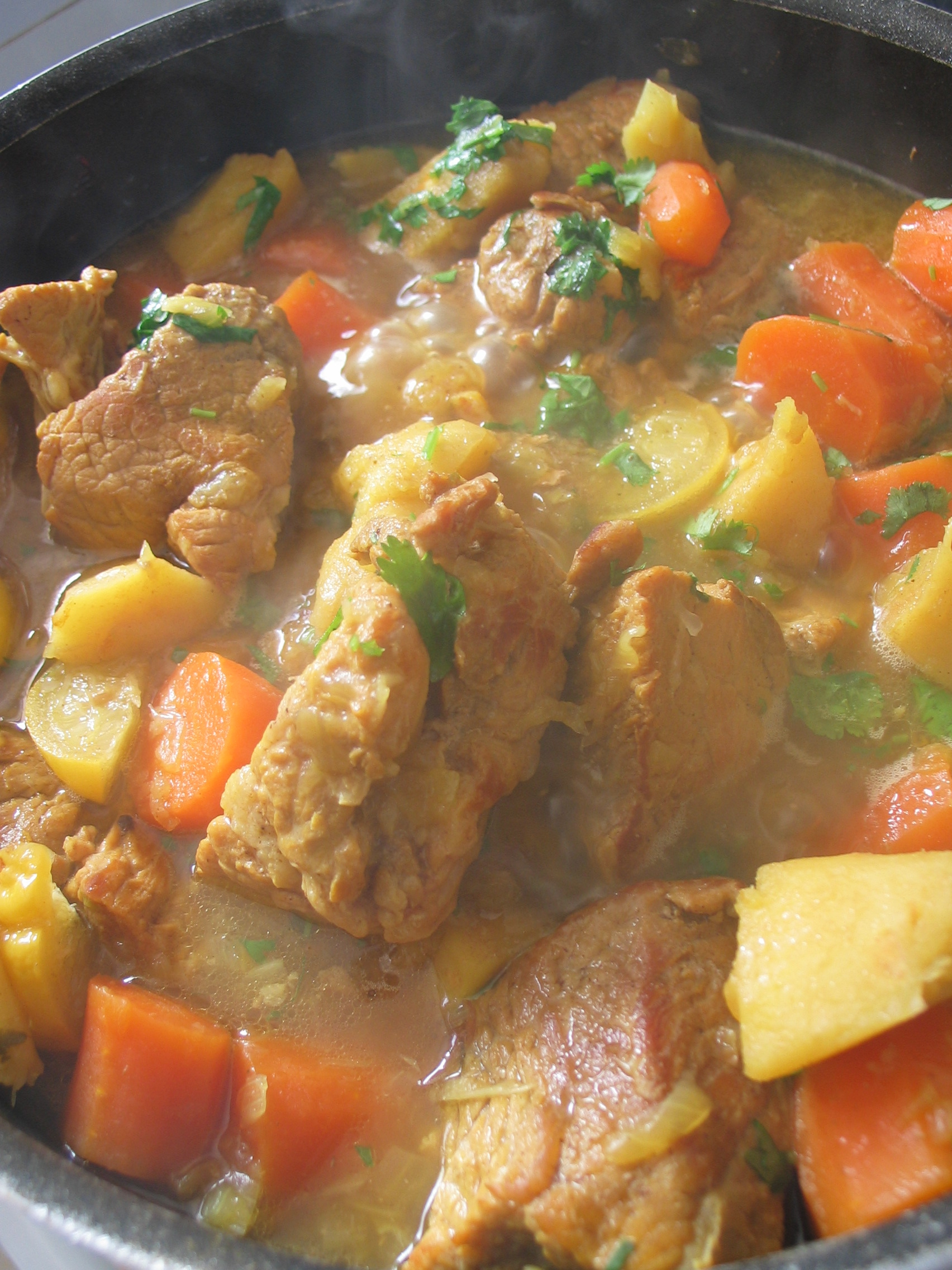 Veal tajine